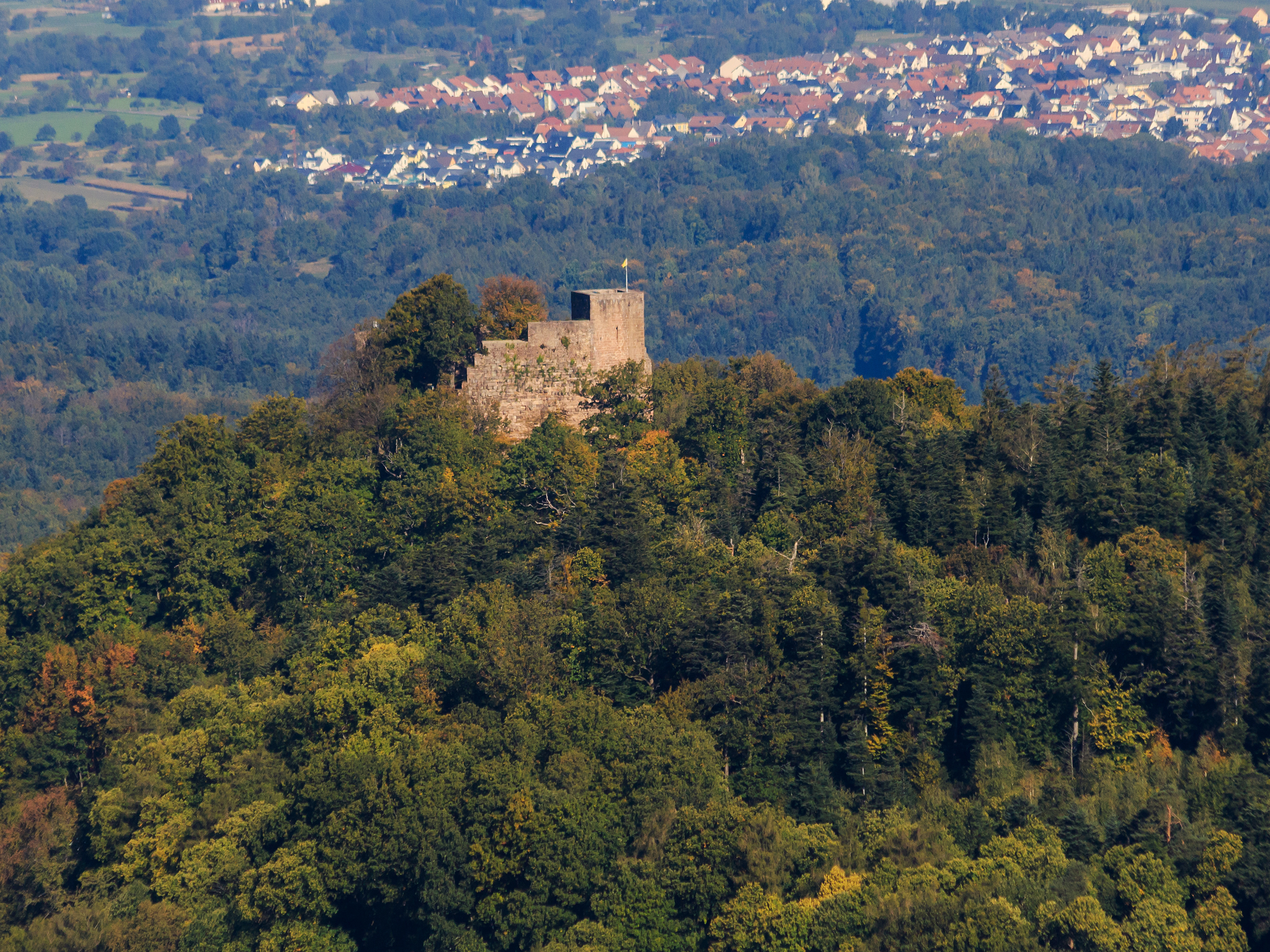 View from Merkur in Baden-Baden (BW, Germany). This photo shows the Ebersteinburg castle ruin.